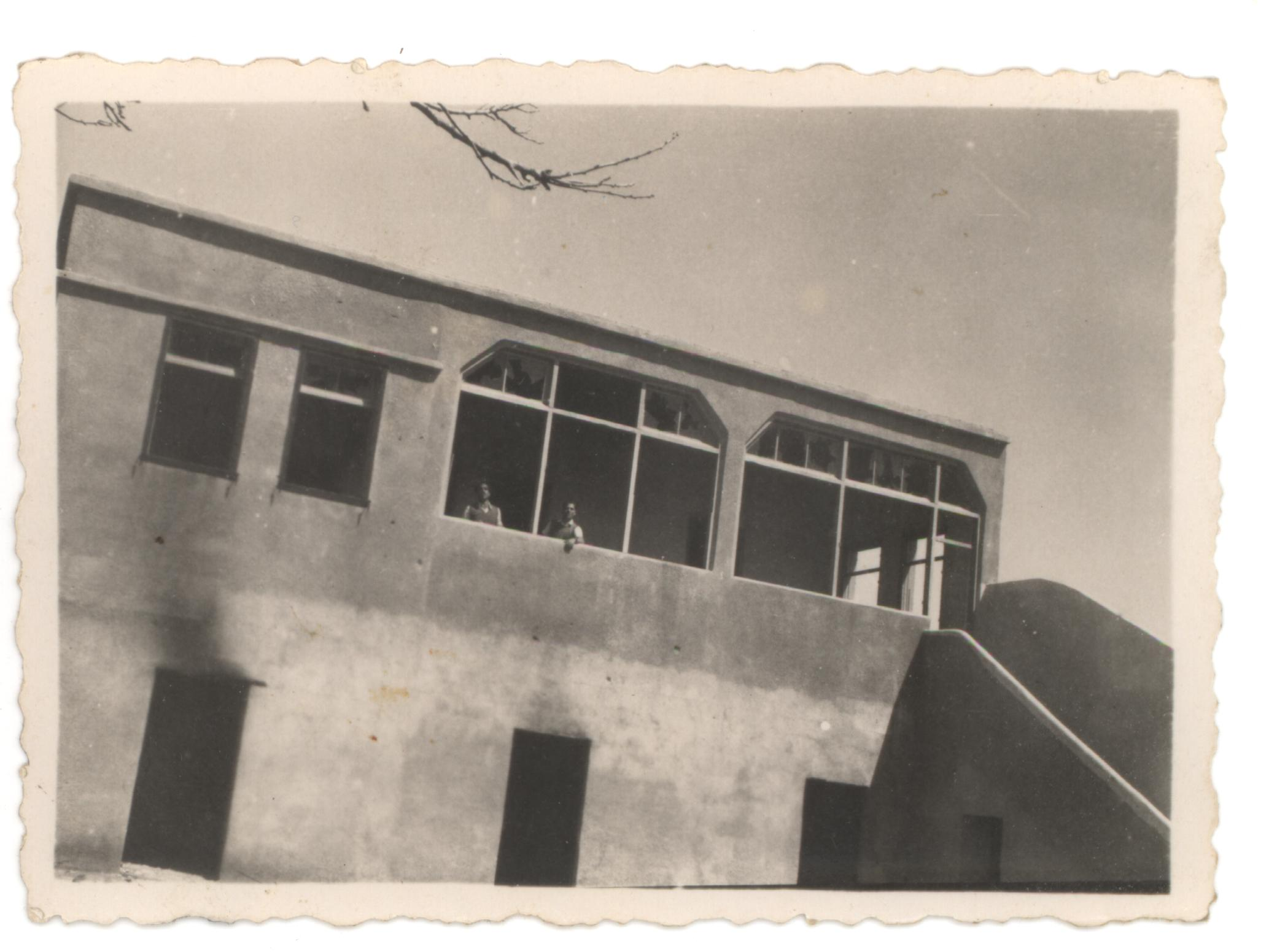 Looking outside the house of Shanti